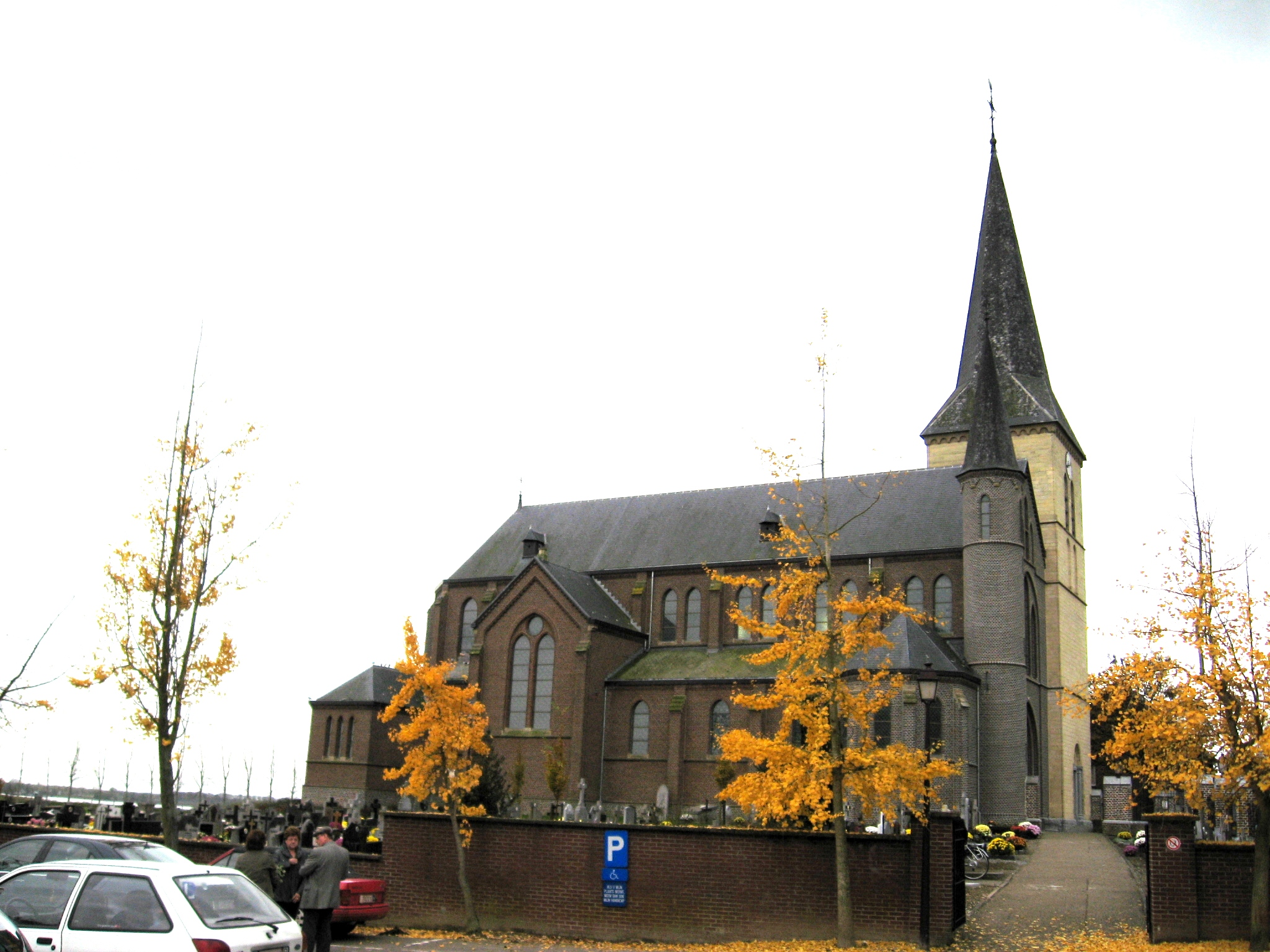 Church of Saint Martin in Kessenich, Kinrooi, Limburg, Belgium